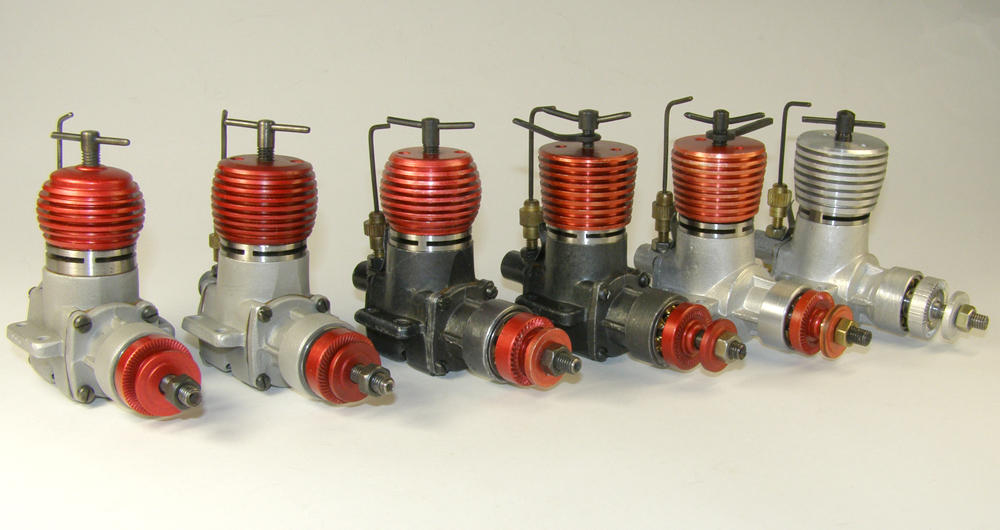 USSR model engine MK-12W all versions